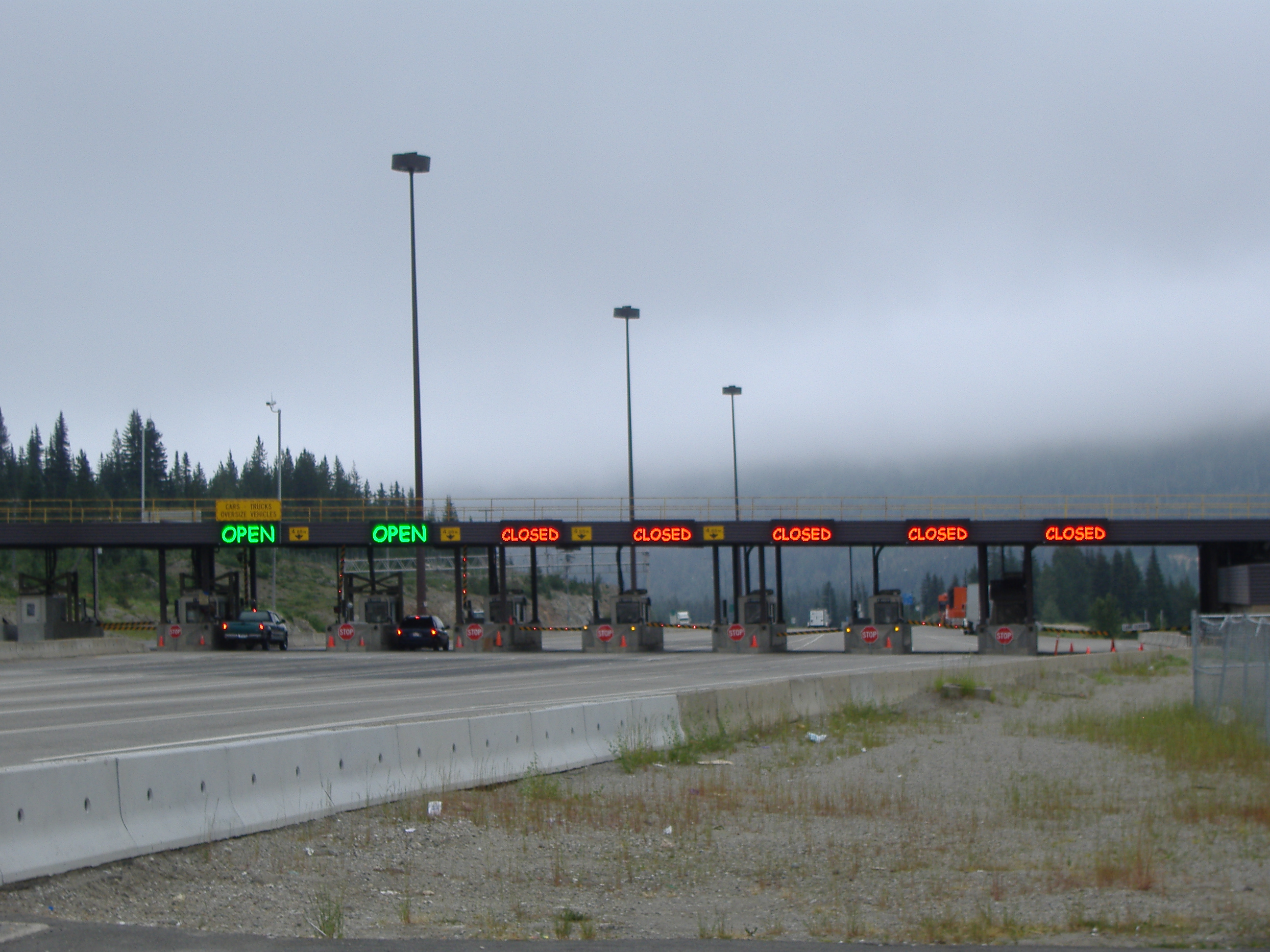 The toll booth for the Coquilhalla Highway.